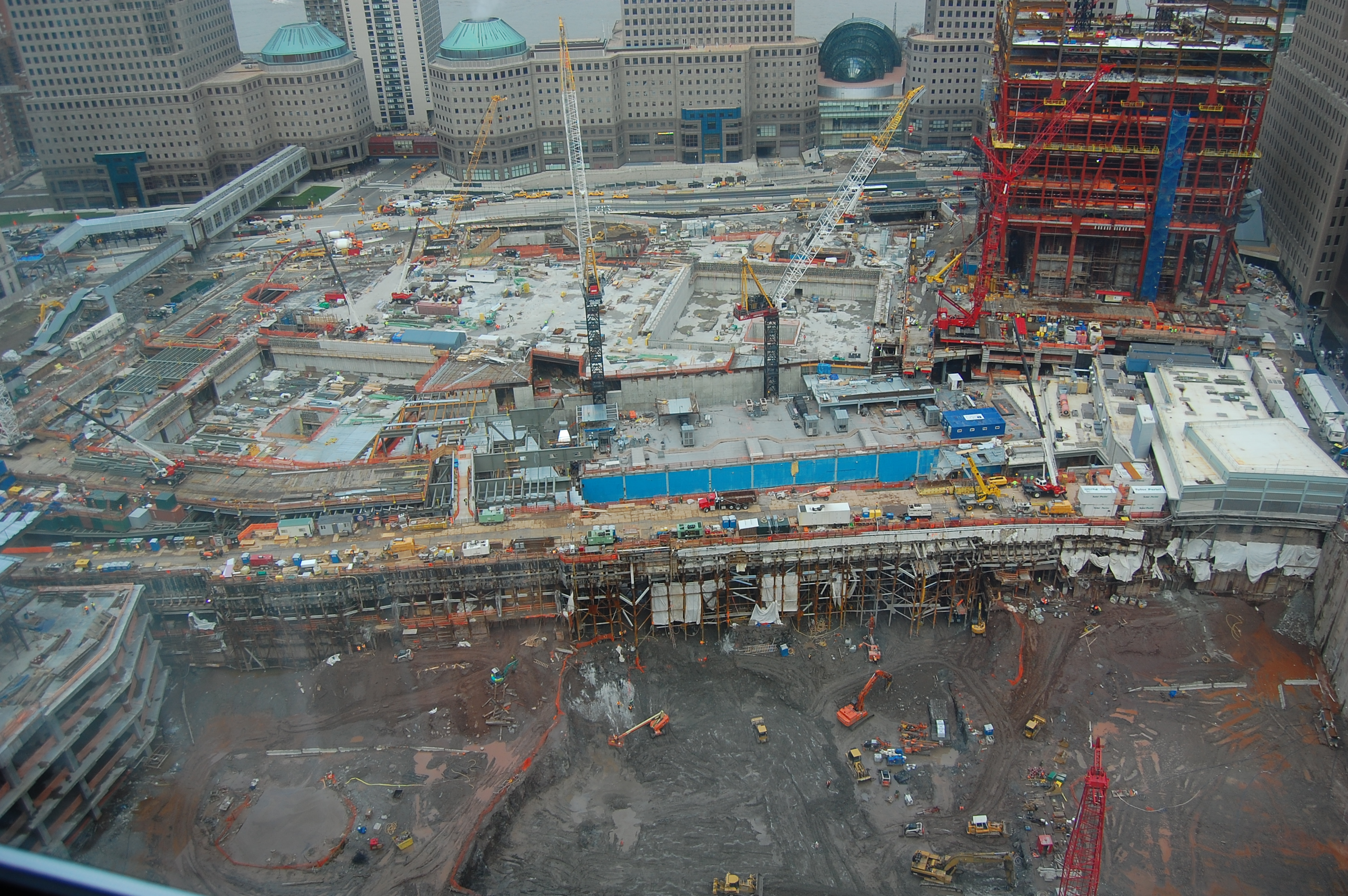 World Trade Center site, as seen from the Millenium Hilton Hotel